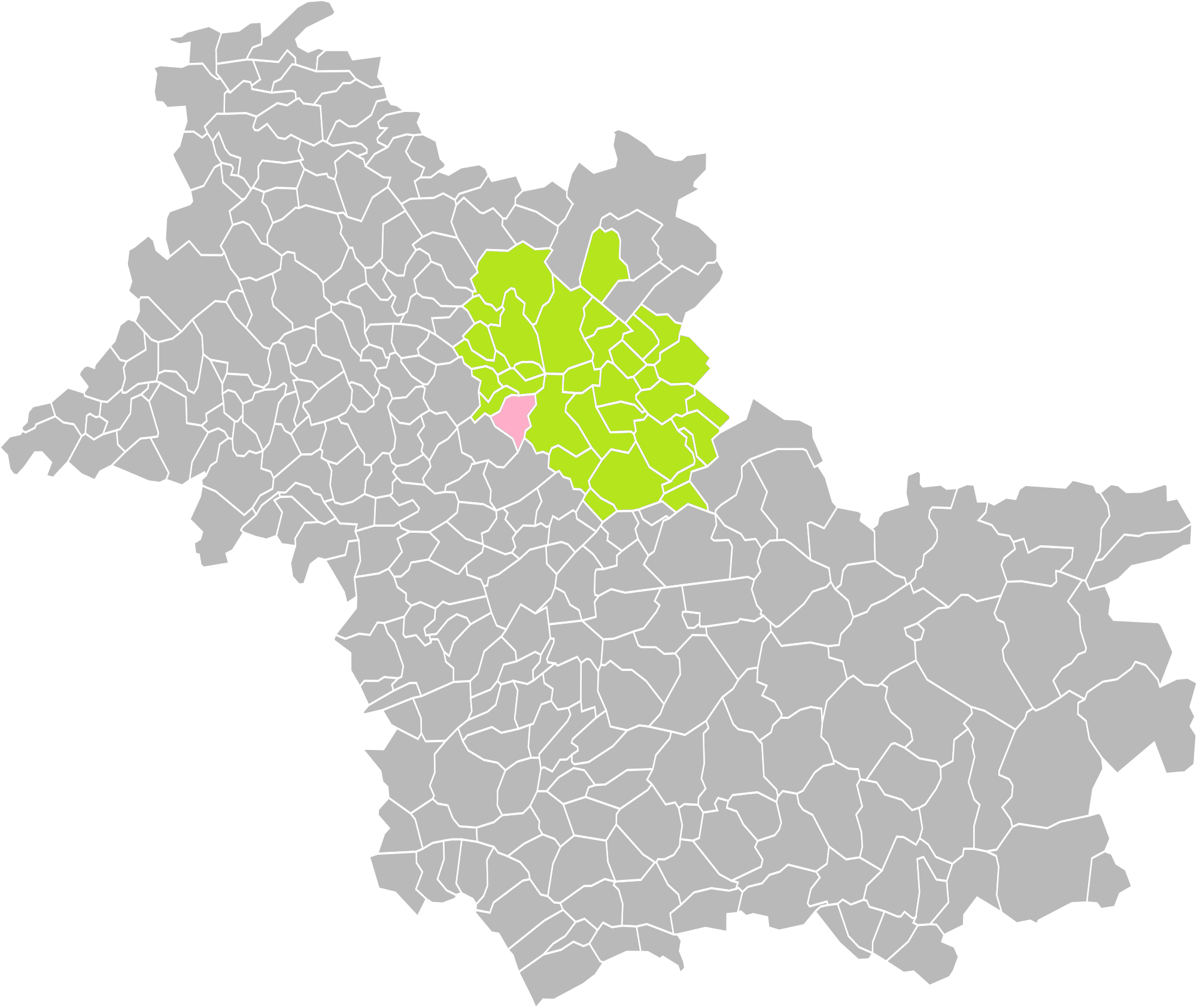 Location of the commune of Conan in the Communauté de communes de la Beauce-Val de Loire (Loir-et-Cher)